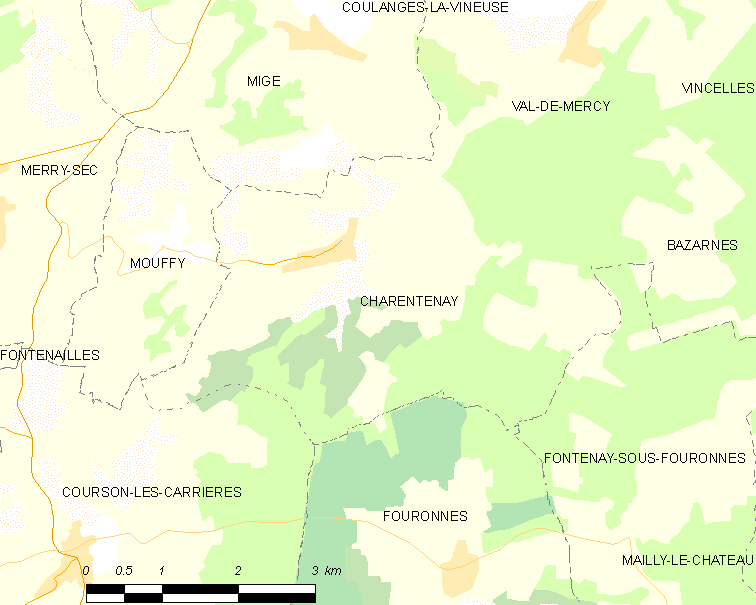 Map of French municipality Charentenay